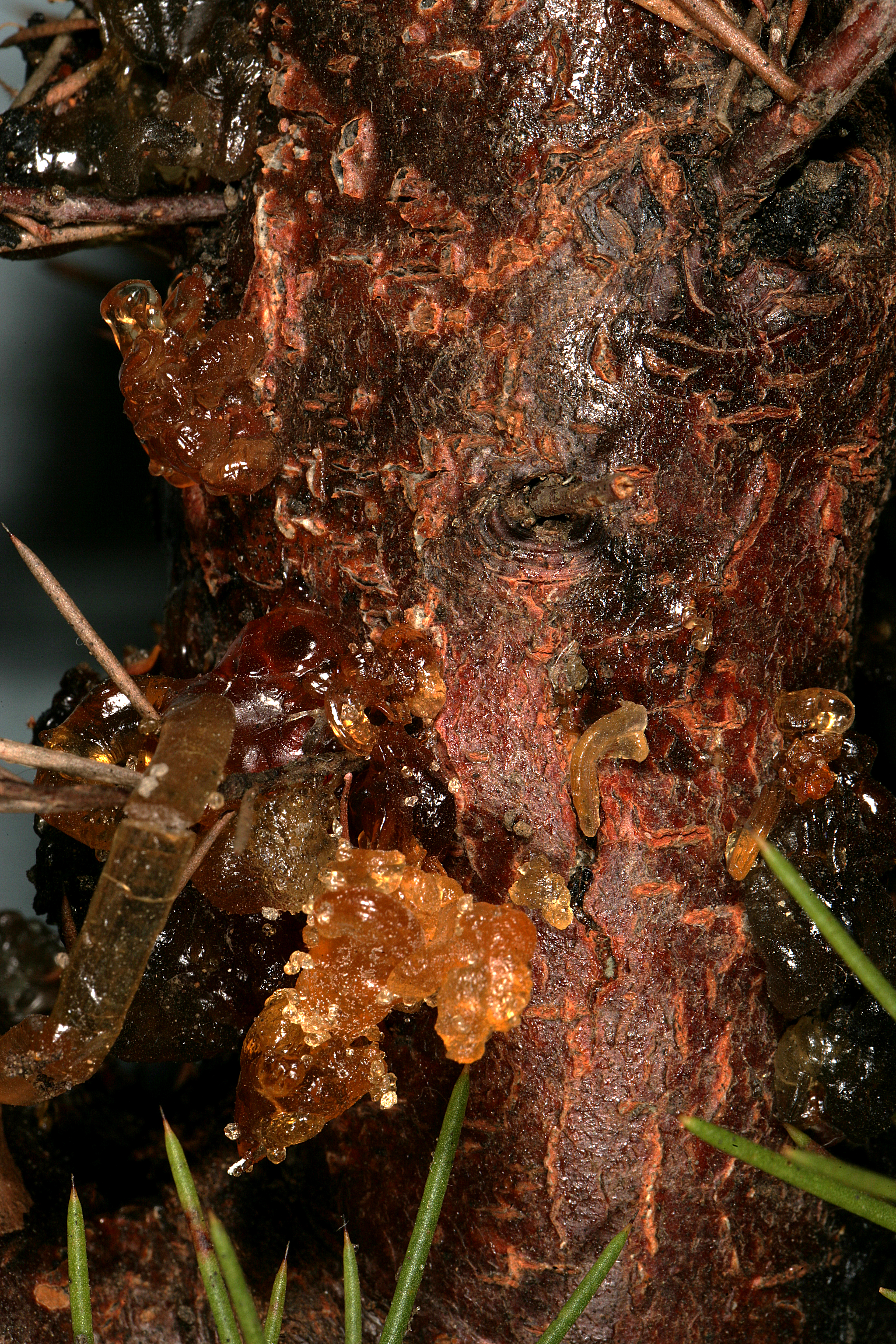 Hakea sericea, gum exuding from a trunk infested with the hakea gummosis fungus (Colletotrichum acutatum). This fungus may eventually kill the plant. Caledon, Western Cape, South Africa